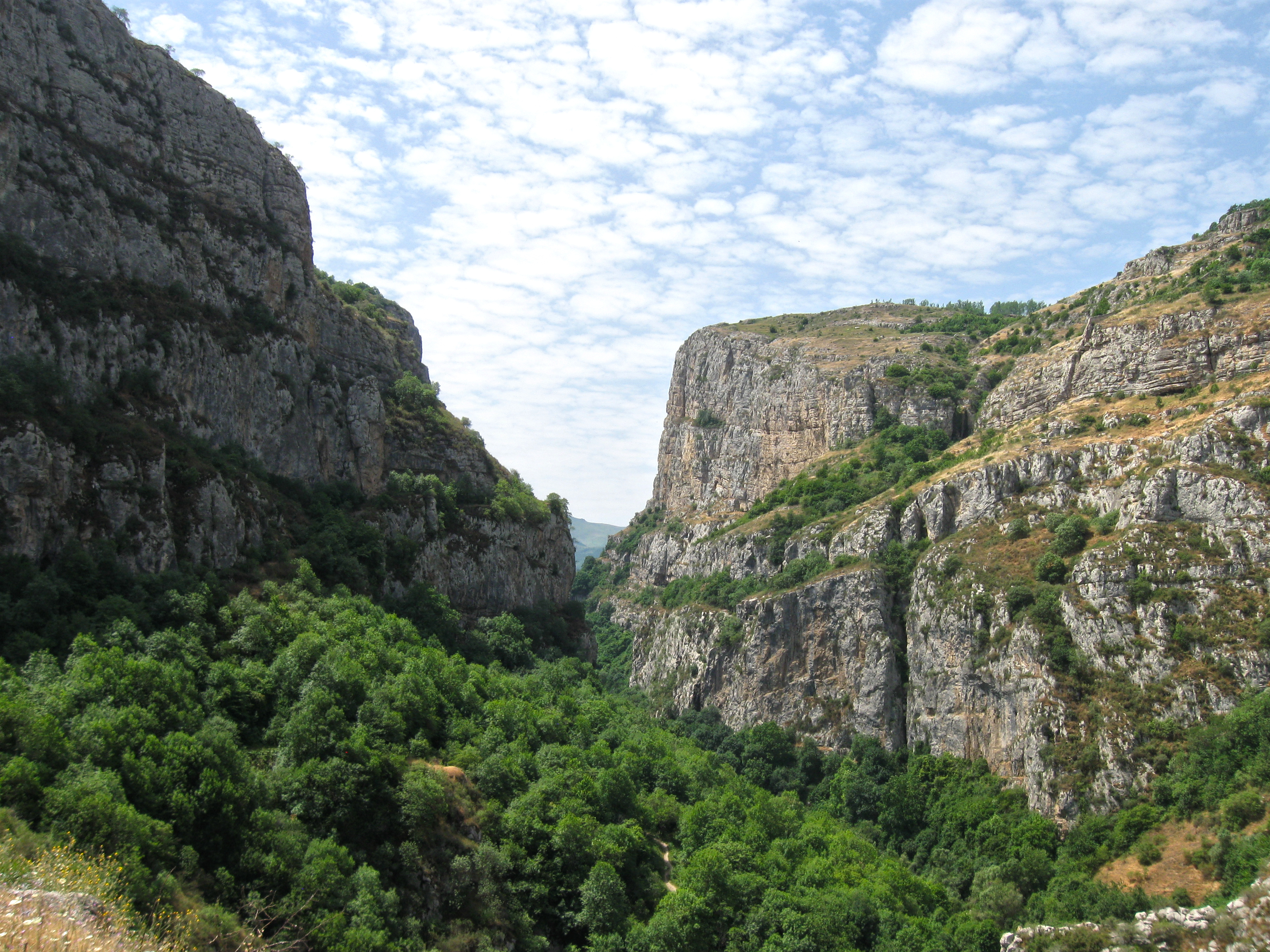 Hunot Canyon, Artsakh republic (Nagorno-Karabakh Republic)